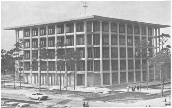 A picture of the building which housed the National Hurricane Center from 1964-1978